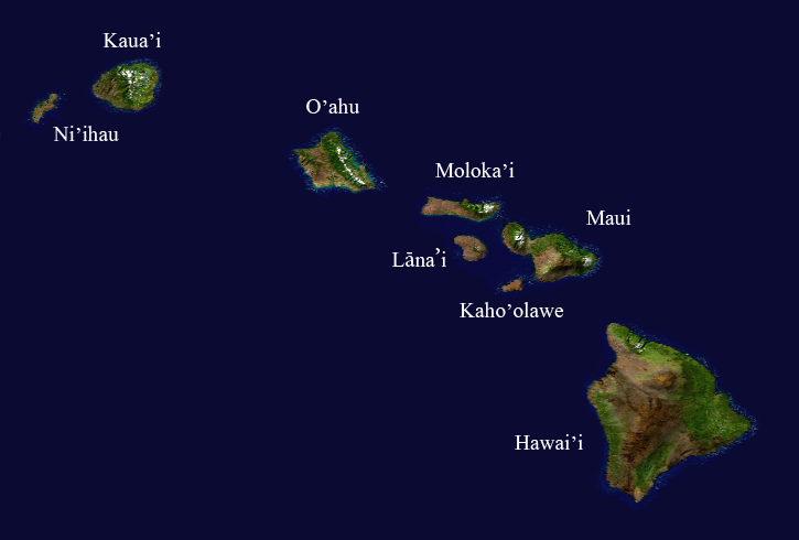 Satellite composition of the Hawaiian island chain.